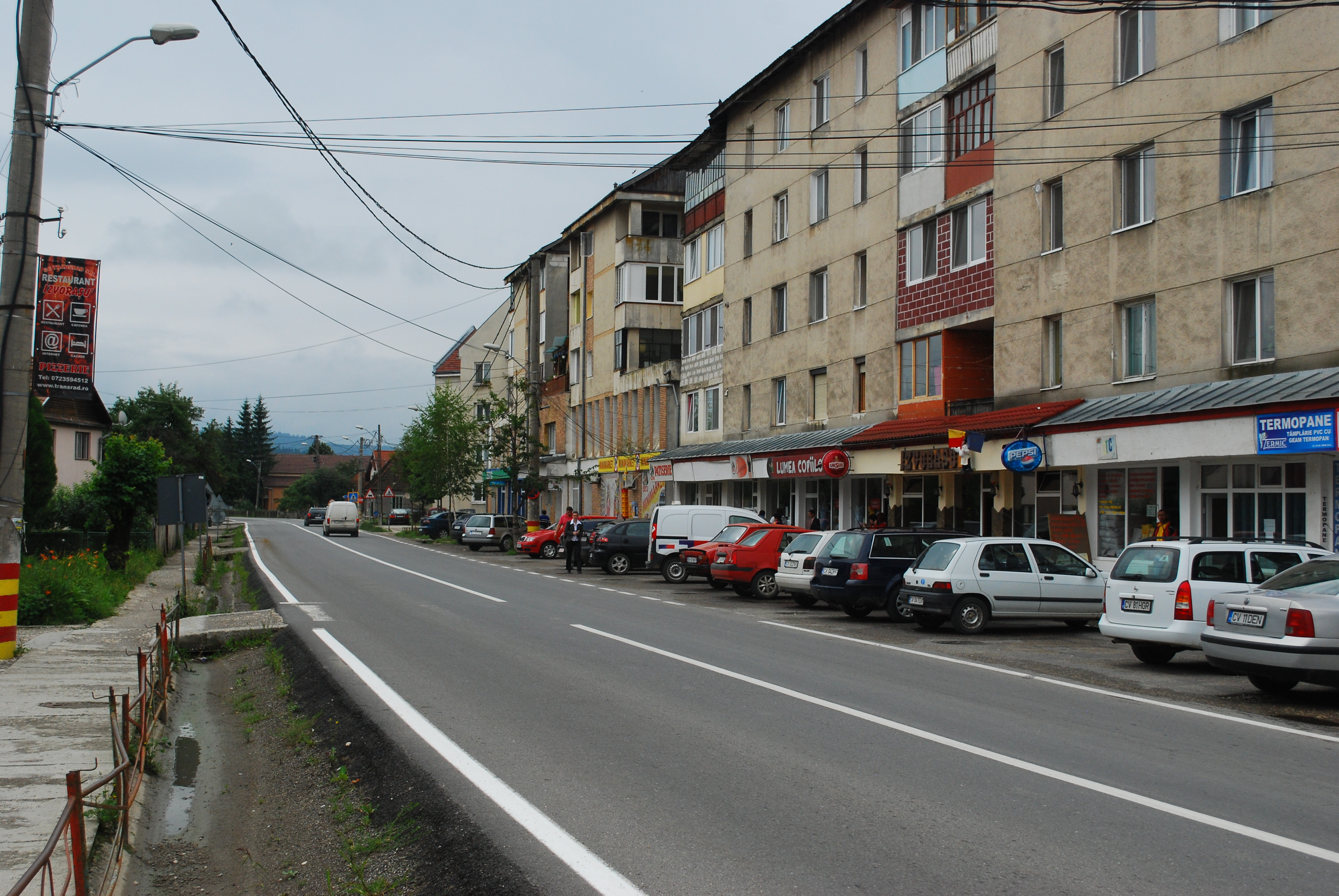 DN10 in Întorsura Buzăului, Covasna County, Romania